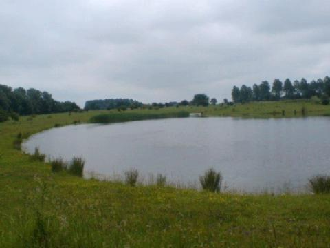 The lake at Northstowe, a proposed new town in South Cambridgeshire and England's first "eco-town".